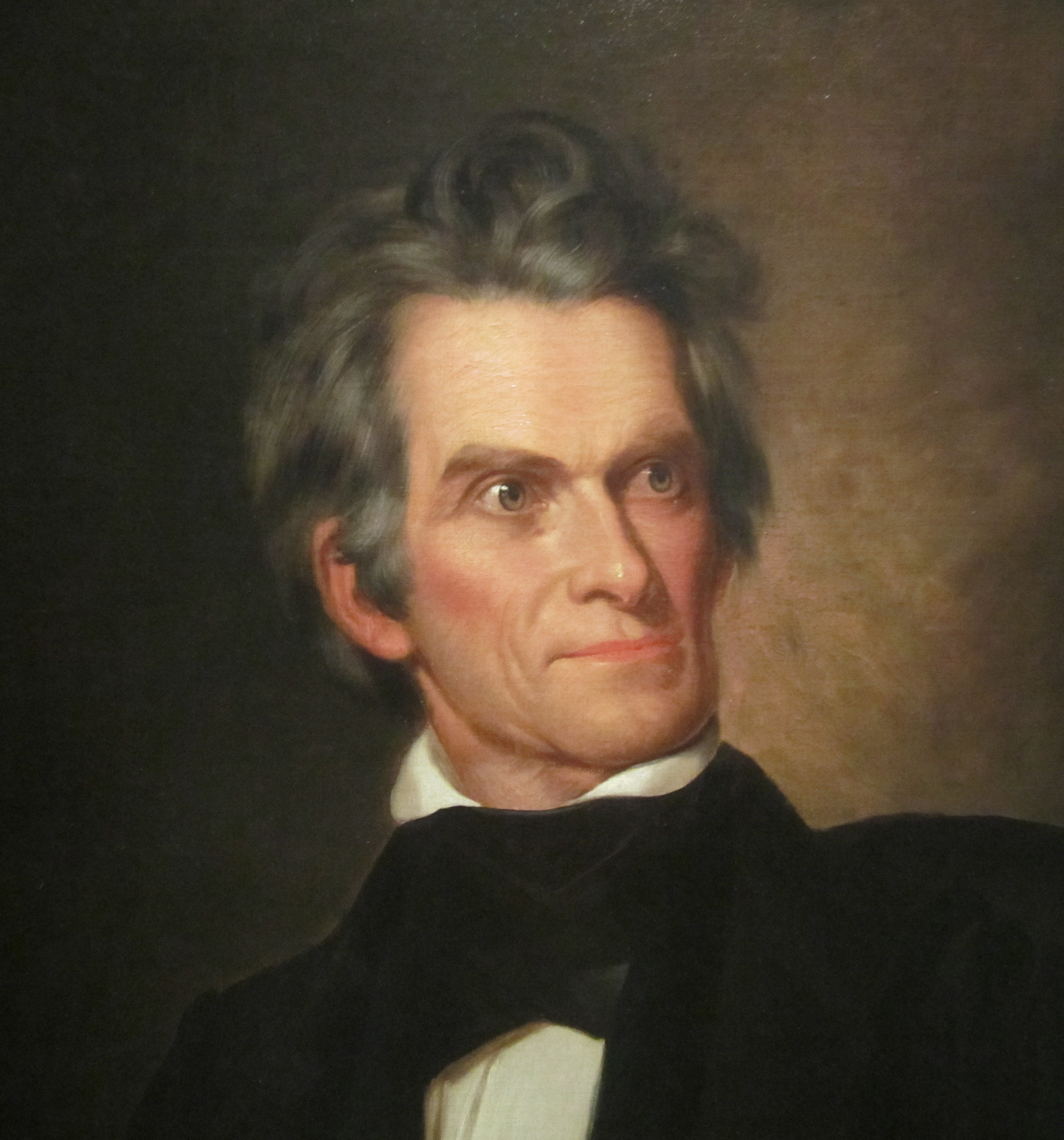 I took photo with Canon camera of John C. Calhoun at National Portrait Gallery in Washington, D.C. Public domain